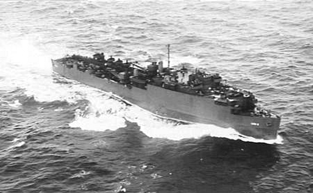 The U.S. Navy dock landing ship USS Carter Hall (LSD-3) underway on 25 November 1943. Carter Hall had been commissioned on 18 September 1943 and sailed from San Francisco, California (USA), on 12 October 1943 with cargo and passengers for Brisbane, Australia. She arrived at her next port, Milne Bay, New Guinea, on 26 November to act as receiving ship, tender, and supply ship for small craft there and at Buna until 10 May 1944. During this period, she took part in the invasion landings at Cape Merkus, Arawe, New Britain on 15 December 1943.